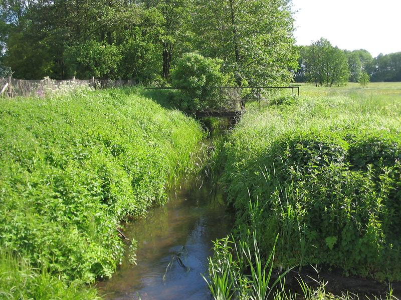 Baitzer Bach (stream) nearby Lüsse. The village Lüsse is an incorporated part of the town Belzig in Brandenburg, Germany.